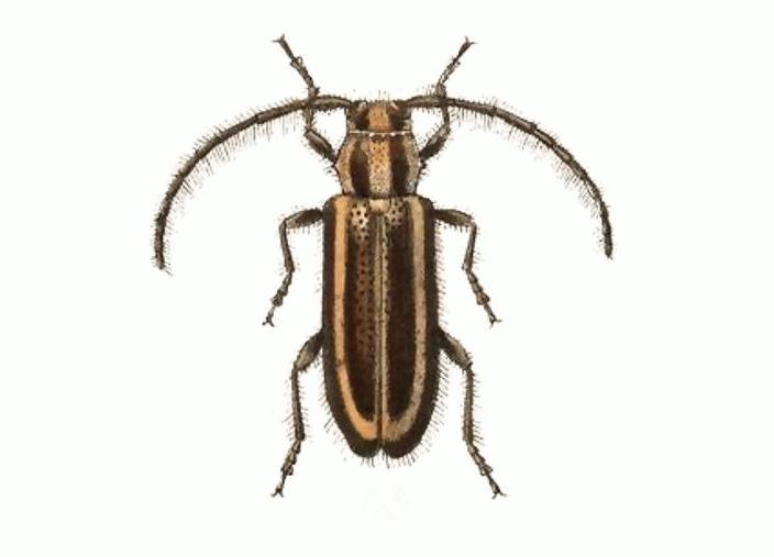 Biologia Centrali-Americana - Eupogonius flavocinctus Cut-out from original (BCA - Coleoptera Vol 5 Tab 8.JPG) shown below